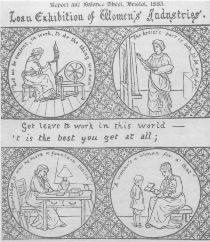 The cover page of the catalogue, report, and balance sheet for the 1885 Loan Exhibition of Women's Industries. The page was designed by Mary D. Tothill and engraved by Corbet Harden.